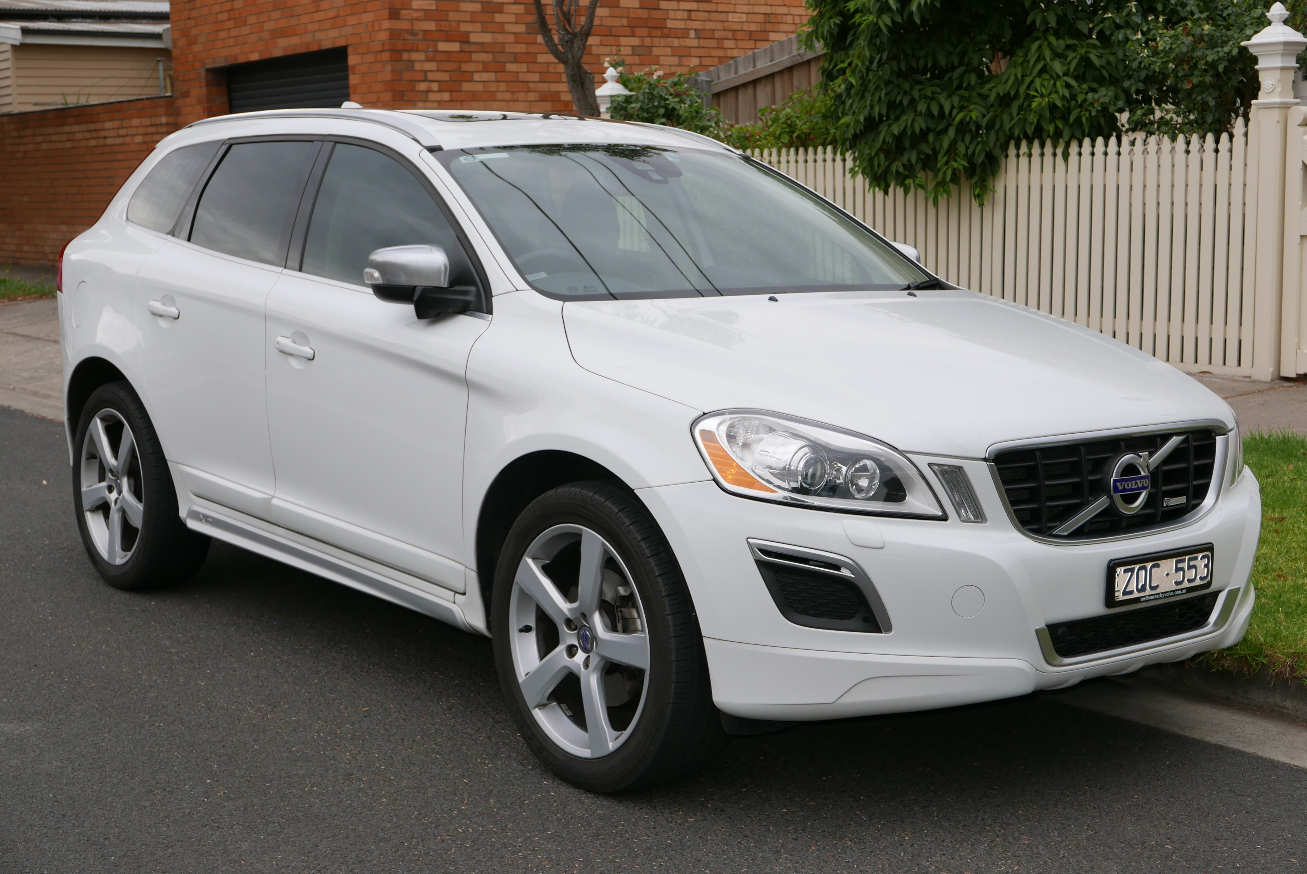 2013 Volvo XC60 (MY13) T6 R-Design wagon. Photographed in Coburg, Victoria, Australia. Vehicle registration enquiry resultsJurisdictionVictoriaRegistrationZQC553Chassis codeYV1DZ90H6D2387530Engine codeB6304T12061204180Compliance date2013-01Year of manufacture2013